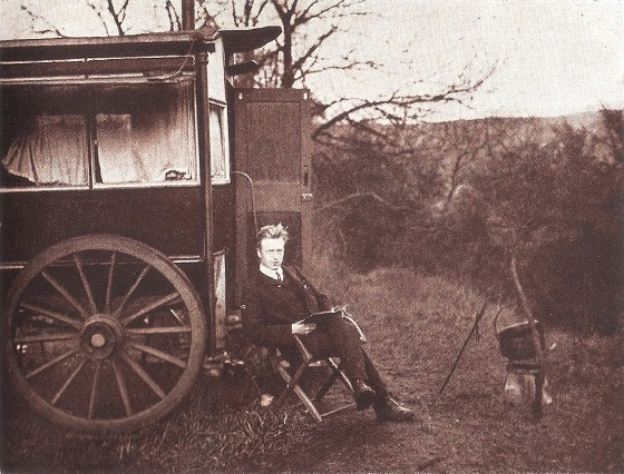 Relaxed at the door of my "Wheelhouse" at Linwood Moss in 1907 during the period I was working as a draughtsman.